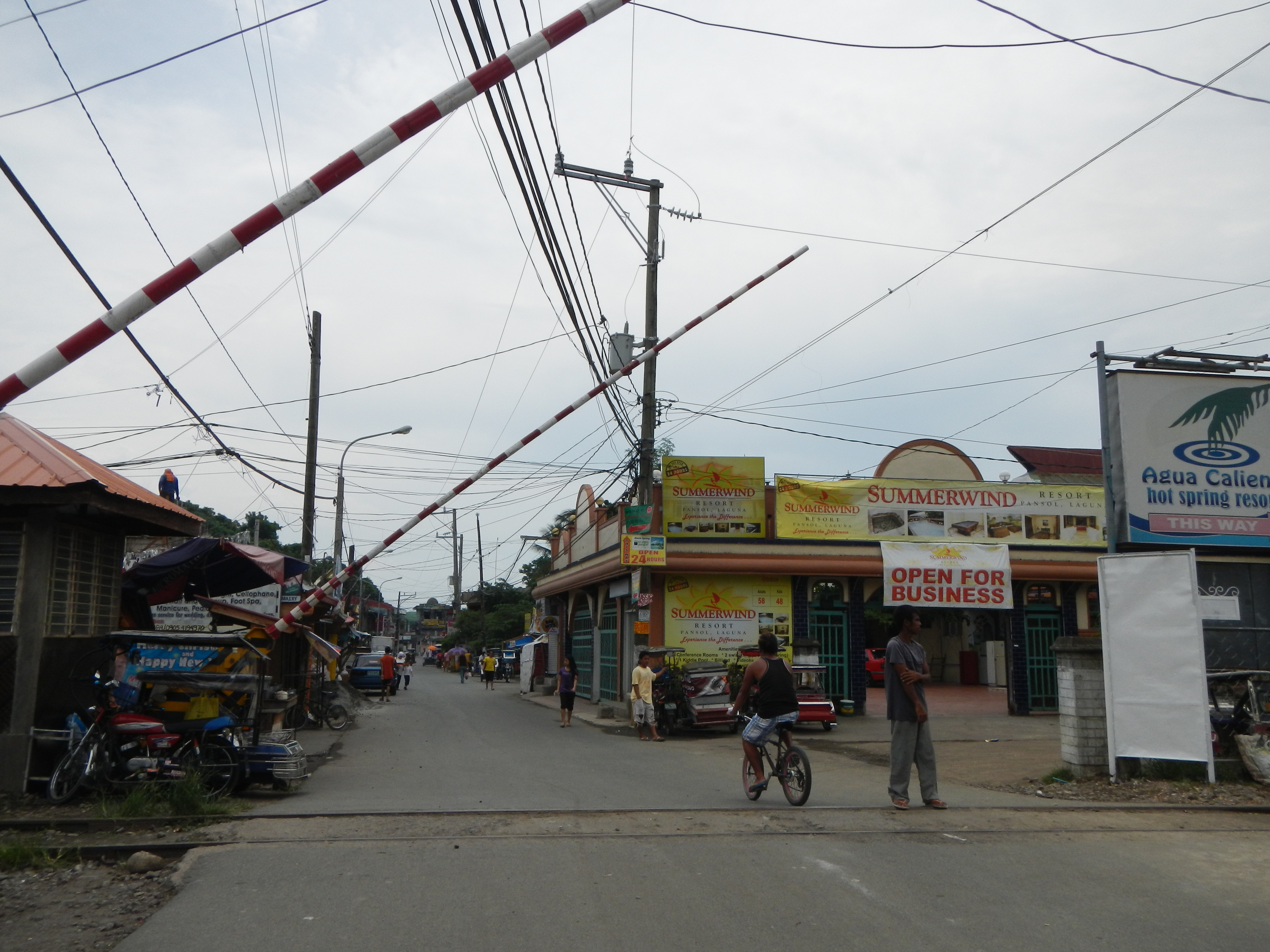 Barangay Hall of Barangay Pansol, [1] Coordinates: 14°10'29"N 121°10'47"E [2] Geographical location: Laguna, Region 4, Philippines, Asia Geographical coordinates: 14° 10' 53" North, 121° 11' 9" East This place is situated in Laguna, Region 4, Philippines, its geographical coordinates are 14° 10' 53" North, 121° 11' 9" East and its original name (with diacritics) is Pansol. -- Calamba City[3]